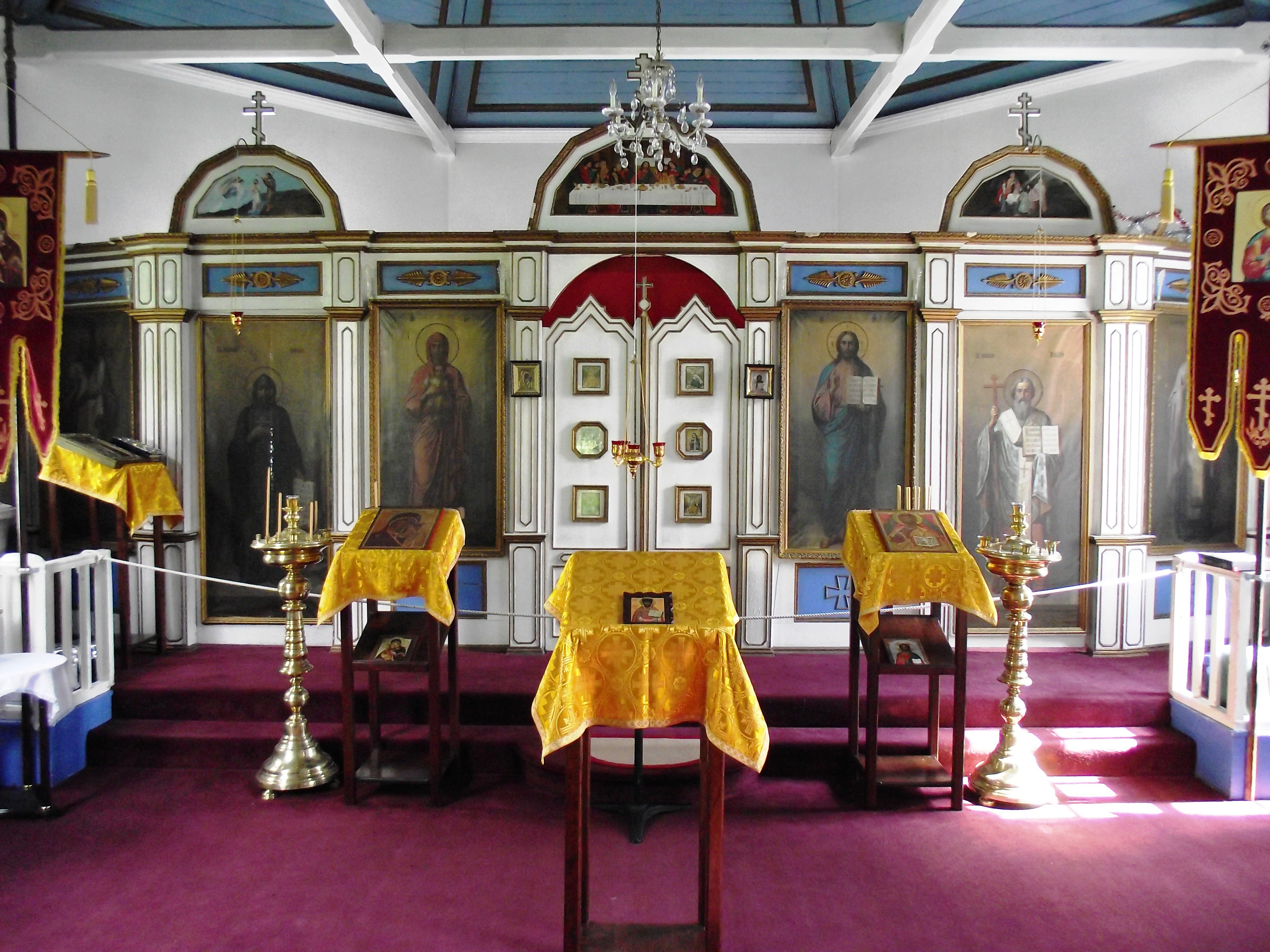 Iconostasis of St. Nicholas Russian Orthodox Church, Juneau Alaska. Photo by Fr Simeon B. Johnson